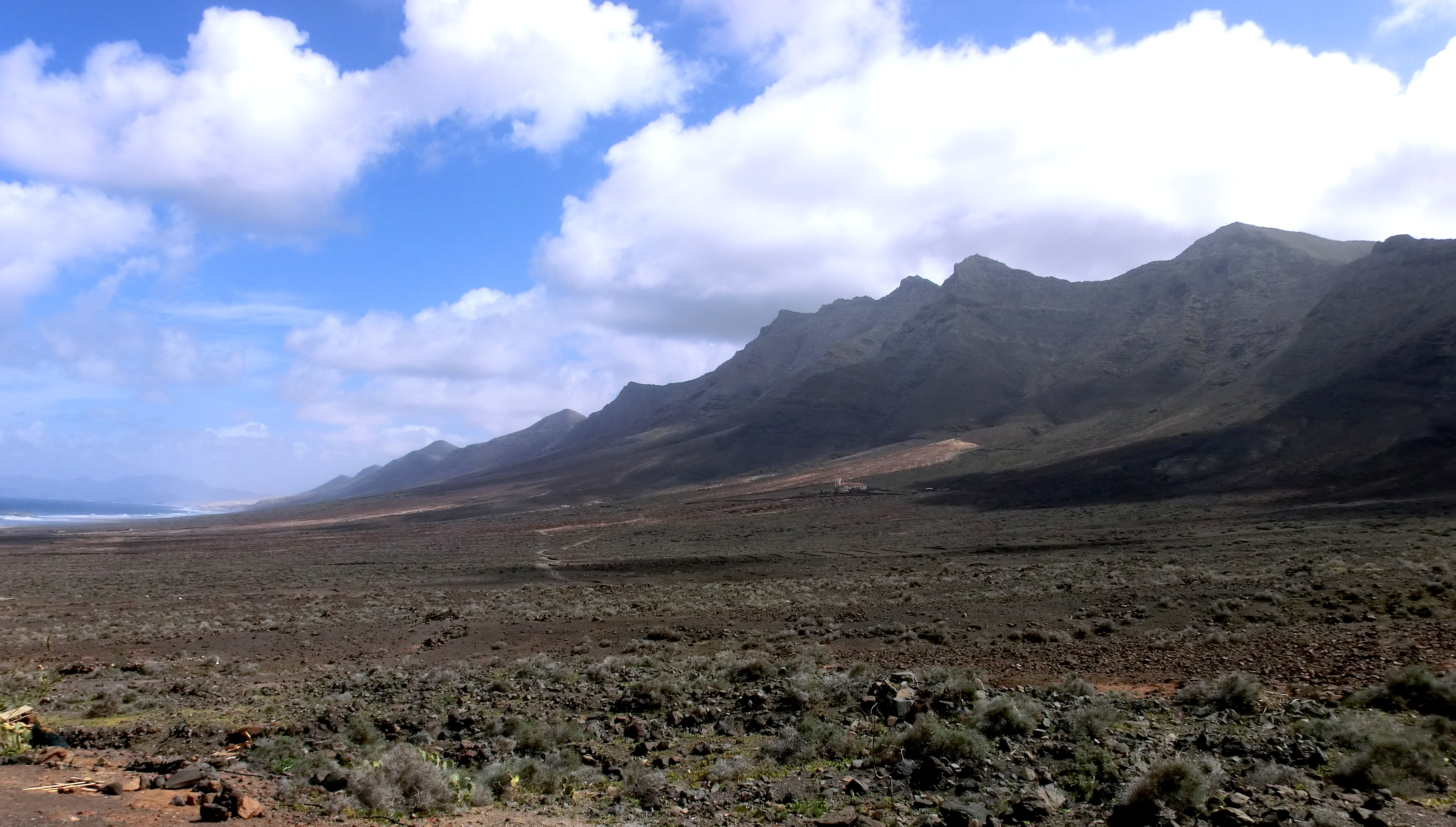 Jandía Mountains, Pico de la Zarza, Fuerteventura, Canary Islands, Spain